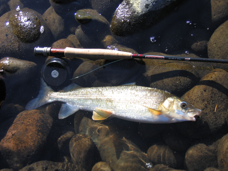 this 16 inch long Mountain whitefish (Prosopium williamsoni) was caught and released in the McKenzie River near the town of Blue River, Oregon on September 1, 2007.